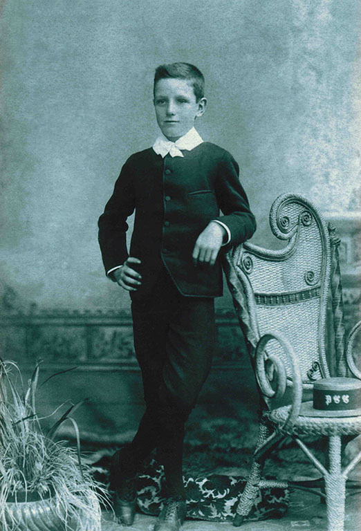 Herbert Hynes, student c. 1895, wearing Pulteney Grammar School uniform